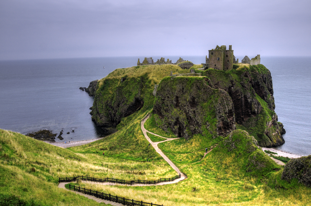 Dunnottar Castle, Scotland